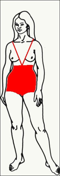 Monokini, the original type, designed by Rudi Gernreich